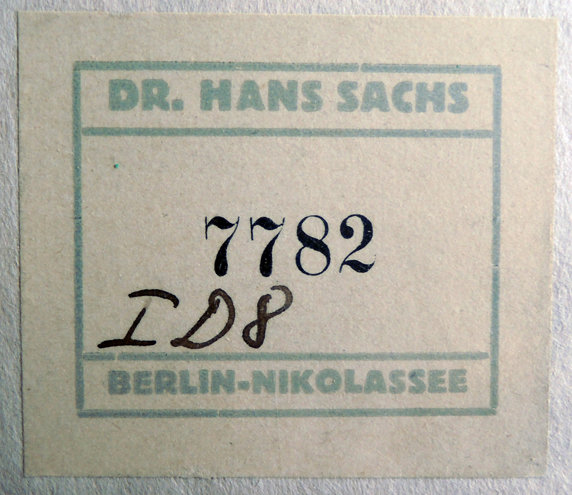 label on poster owned by Henry Townsend, the source, and Jessica Townsend, niece of Hans Sachs